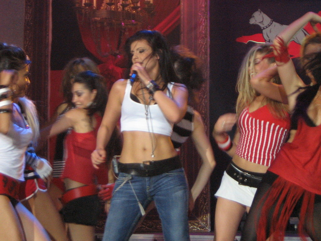 Anelia